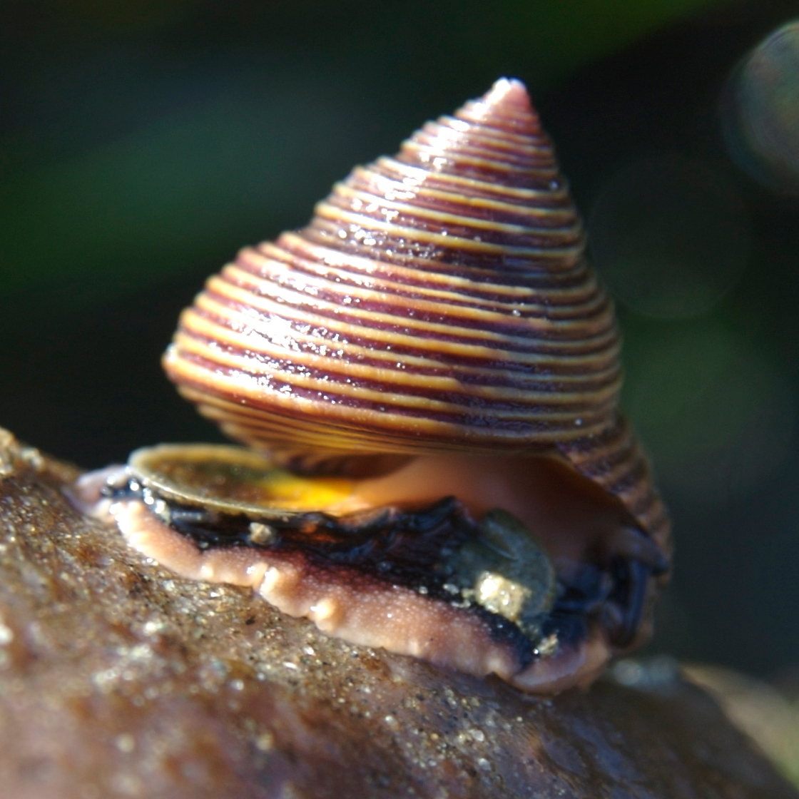 Calliostoma ligatum. You can see the operculum (the flat structure) in front of the body of this gastropod. This structure protects the snail from desication when it is closed.